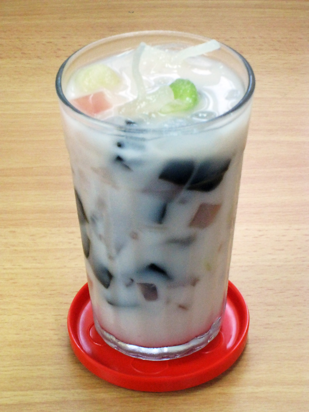 Es campur in a glass; of ice dessert with syrup, condensed milk, fruits bits, seaweed, jelly and black grass jelly. Served in Jakarta, Indonesia.